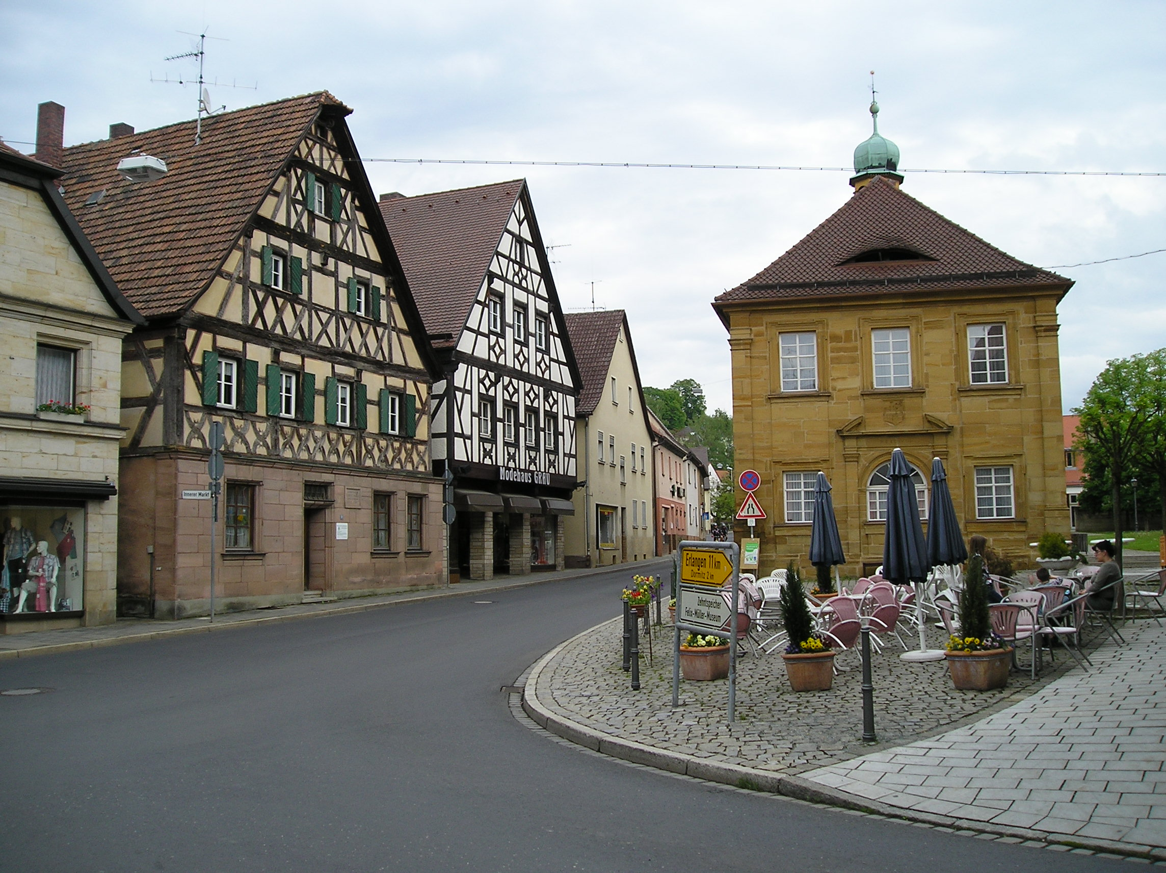 Central place and street of Neunkirchen am Brand (Bavaria, Germany) next to the church St. Michael which is located at the right outside the image. On the left there are old timbered houses and the yellow building in the middle is the baroque former "Amtshaus".